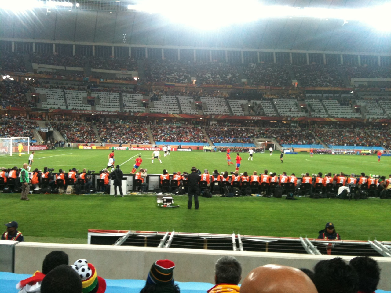 Teams during the semifinal between Germany and Spain at FIFA World Cup 2010, 7 July 2010, Moses Mabhida Stadium, Durban